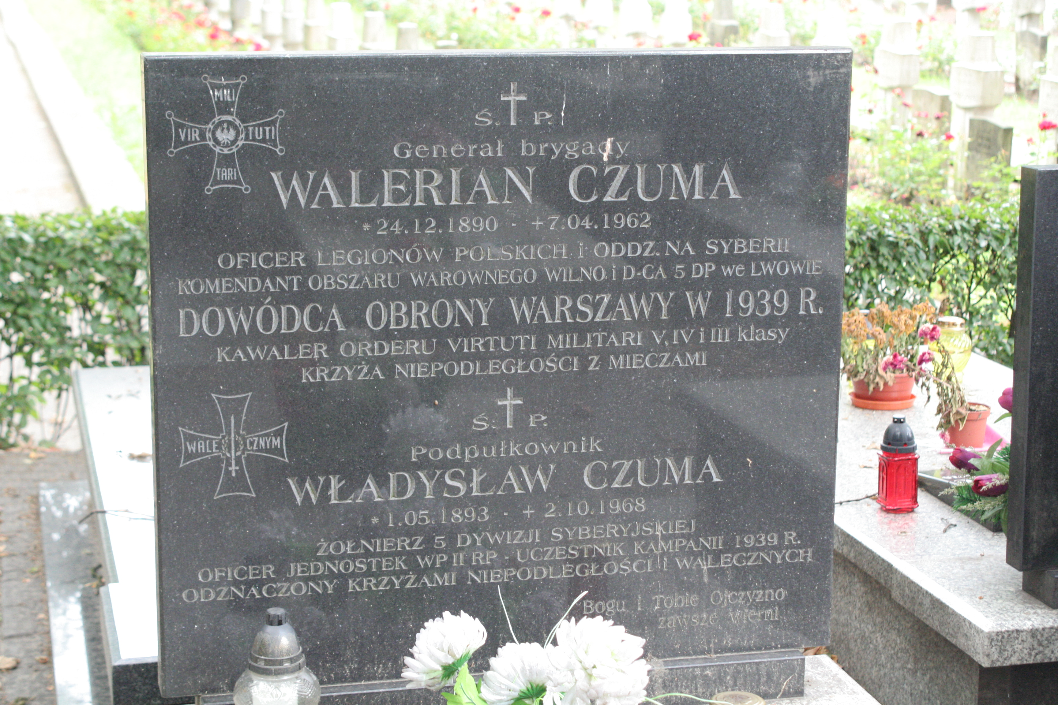 General Walerian Czuma's tombstone at Powązki Wojskowe Cemetery.